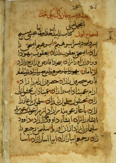 Gospel of Matthew in Persian (Copied by Mas'ud ibn Ibrahim 1312) This, the first Persian manuscript to enter the Vatican Library, may well have been acquired by the Chaldean metropolitan Mar Yosef, who came from Malabar to Rome in 1568 to clear himself of the charge of Nestorianism. Written in the cursive "naskhi" script typical of the Middle East, it is one of the earliest surviving Persian manuscripts of any part of the Scriptures--none are known to be earlier than the fourteenth century. The rarity of the manuscript was quickly appreciated. The Persian scholar Giovanni Battista Vecchietti consulted it when he was in Rome in 1598 and foliated it. It was also read and copied by Tumagen, an Armenian from Aleppo who probably arrived in Rome in the train of Leonardo Abel after his mission to Syria in 1586. The page displayed here includes the opening of the text of the Gospel of Matthew.